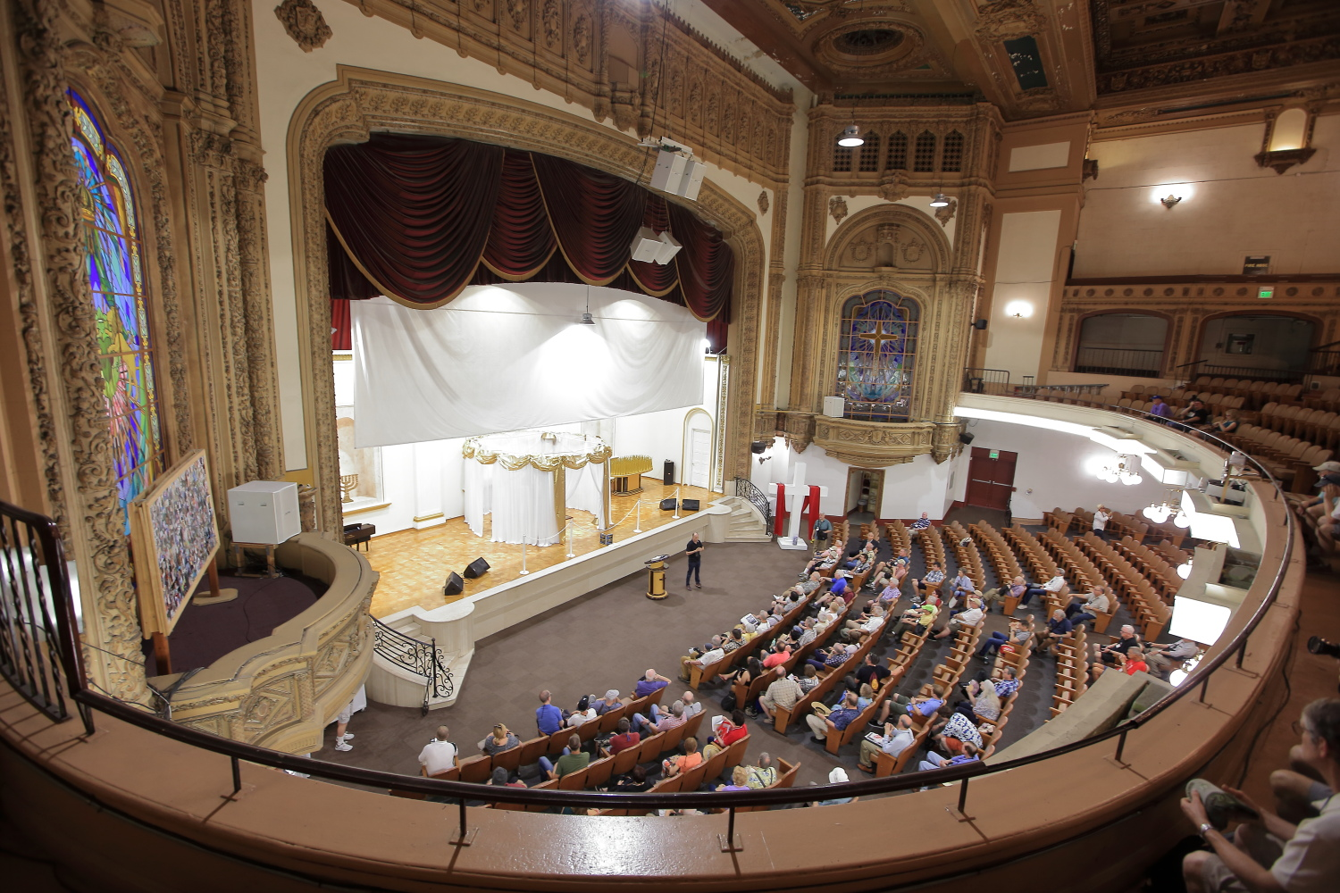 The auditorium and stage of the State Theatre (Los Angeles)